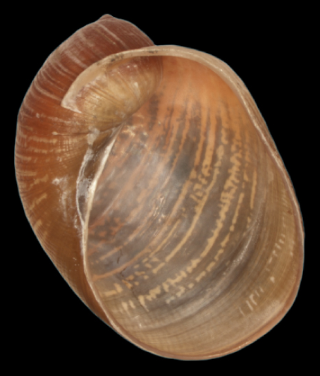 Photo of an apertural view of the shell of Amphibulima patula dominicensis. The height of the shell is 27.4 mm.